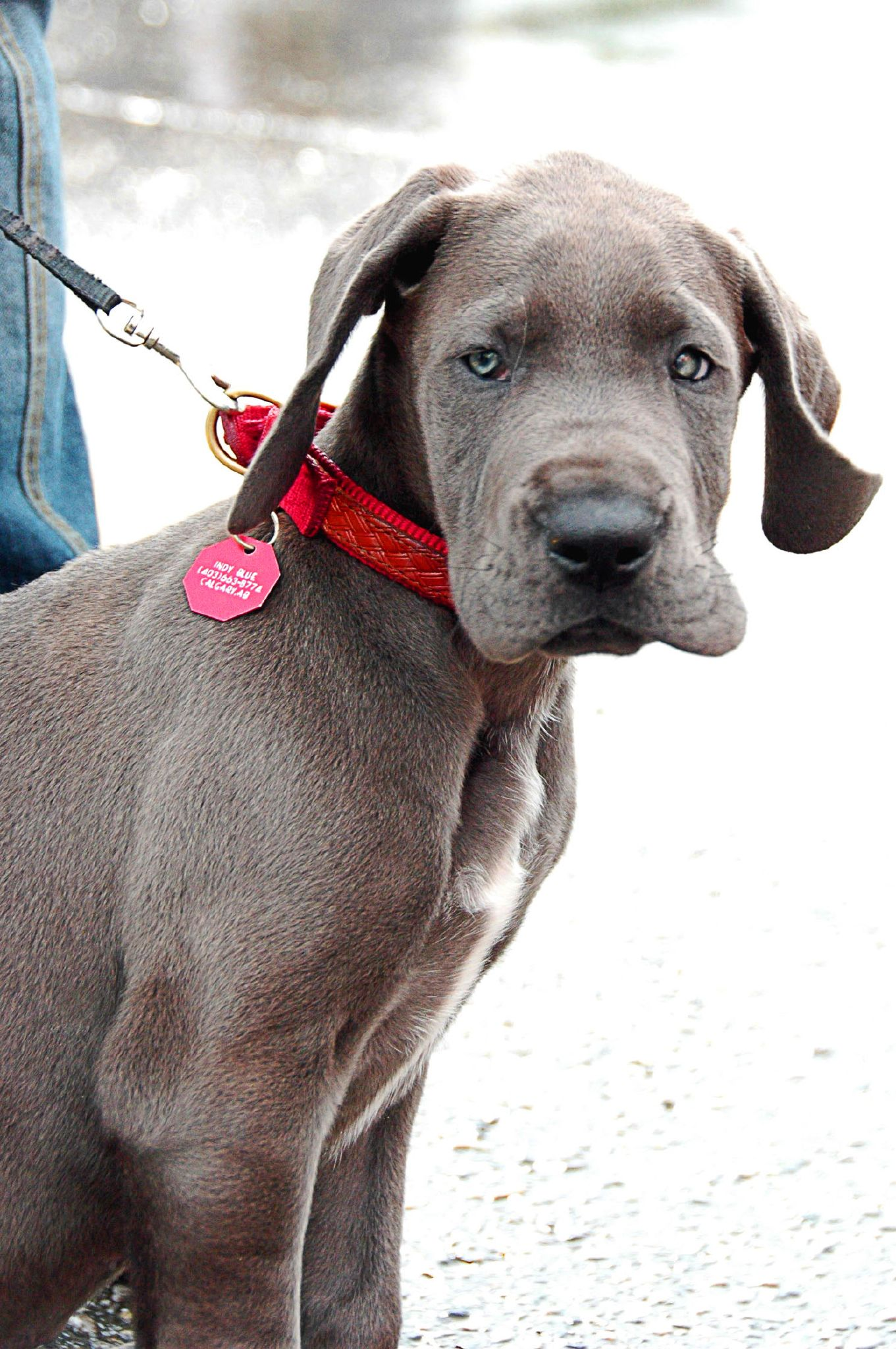 A blue Great Dane puppy.